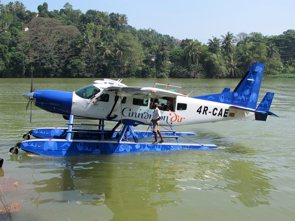 Cinnamon Air Cessna 208 Caravan I on Polgolla Reservoir